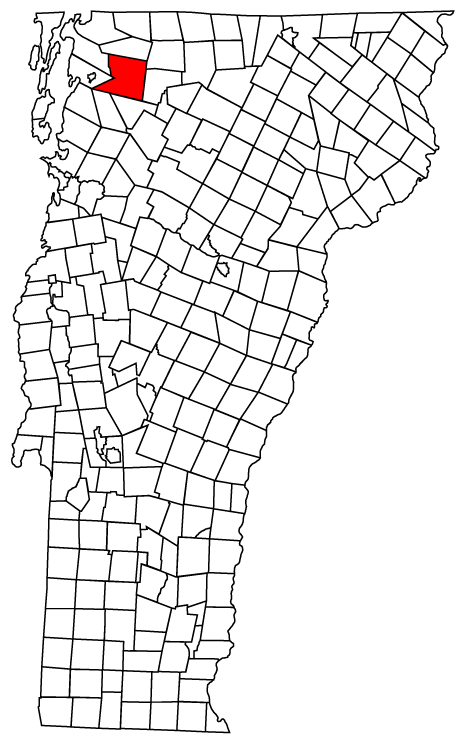 Map of Vermont towns with Fairfield highlighted